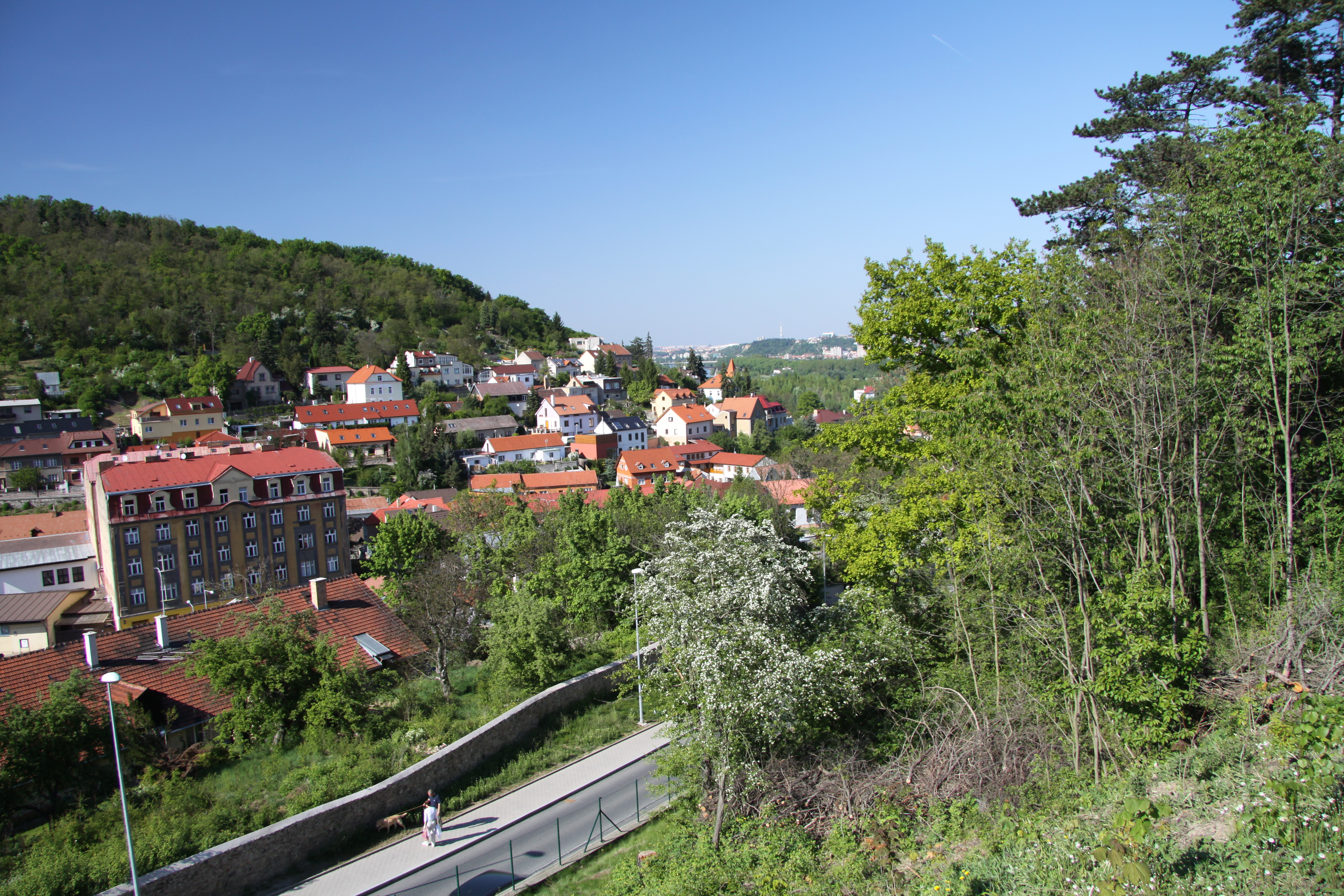 View to Velká Chuchlefrom natural monument Nad závodištěm, Velká Chuchle, part of Prague, Czech republic - Google Maps - Google Earth